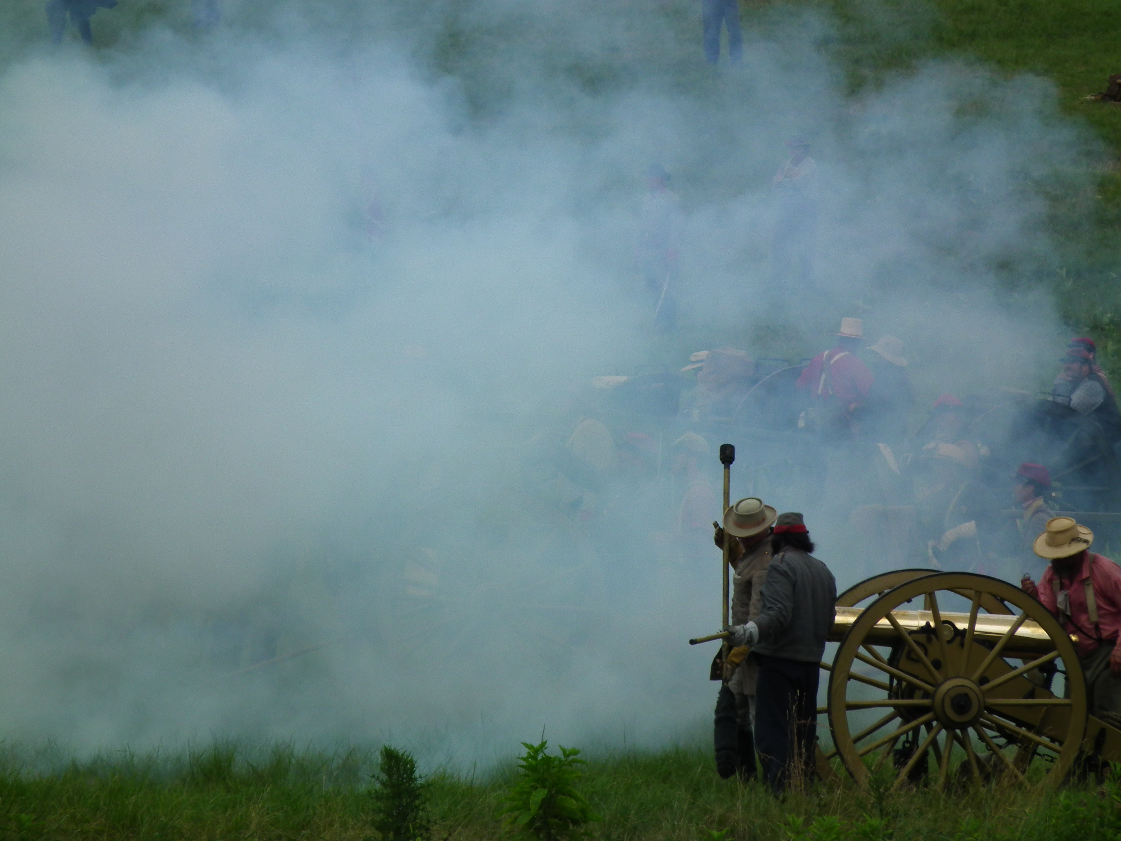 the 150TH Gettysburg Anniversary National Civil War Battle Reenactment, the single largest and one of the most pivotal military engagements ever fought on American soil.